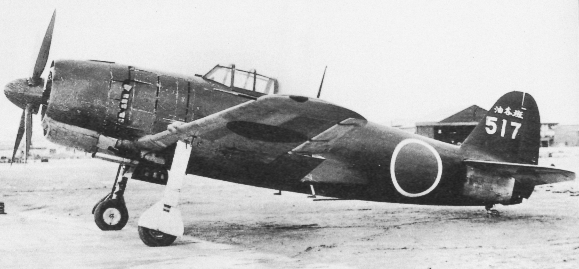 Kawanishi N1K4